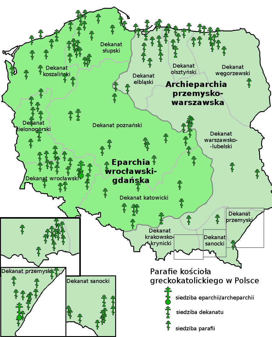 Ukrainian Greek Catholic Church in Poland z podziałem na eparchies, deaneries and parishes. Data sources: State in 20.12.2019